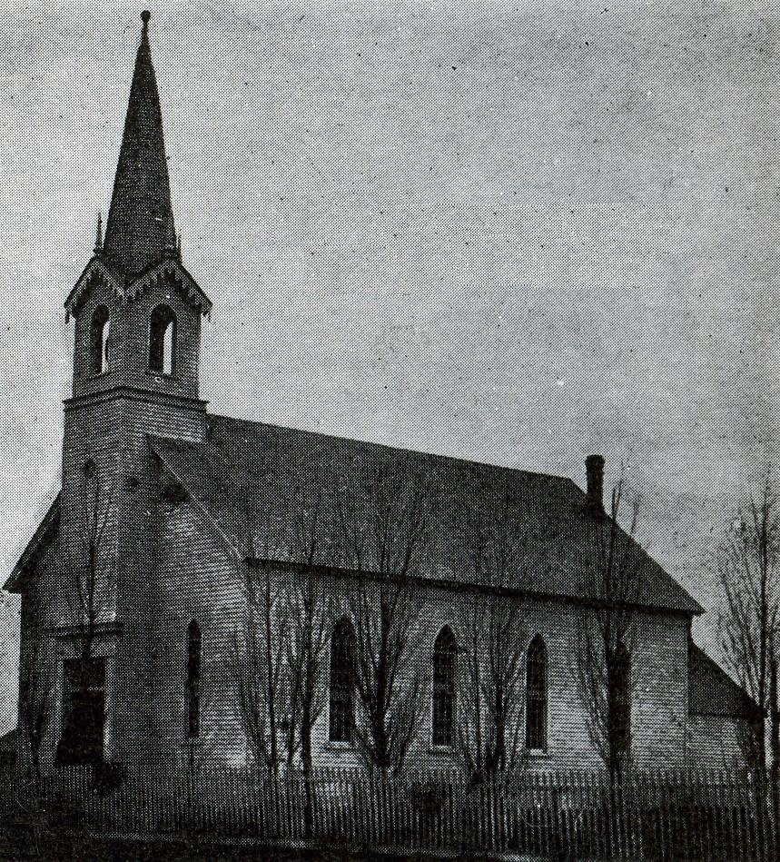 The First Reformed Church of Roseland, Illinois. The location is now in Chicago and the members of Roseland Christian Reformed Church were the ones that founded Roseland Christian School in 1884.